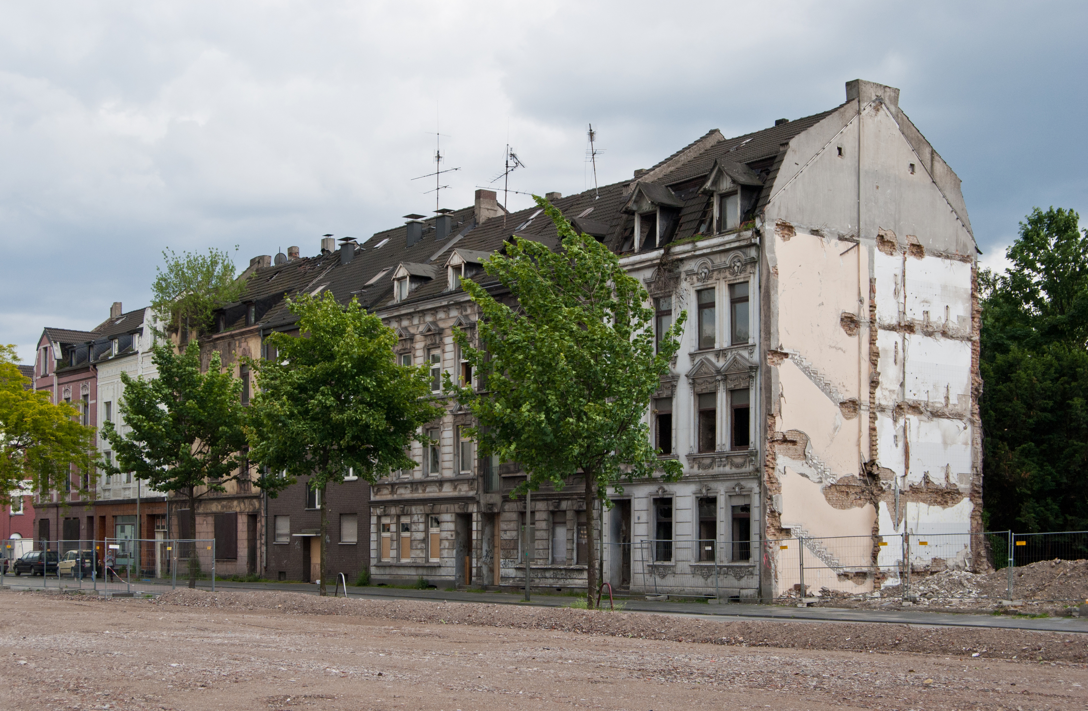 Duisburg (North Rhine-Westphalia, Germany) – borough Meiderich/Beeck – derelict houses along the street Heinrichstraße in the deprived area Bruckhausen, a district of Duisburg, that mostly will be demolished due to the landscaping projekt Grüngürtel Duisburg-Nord («Green Belt Duisburg North»); buildings in the foreground and the right have already been demolished, the remaining houses will follow This photograph was taken with a Nikon D3000